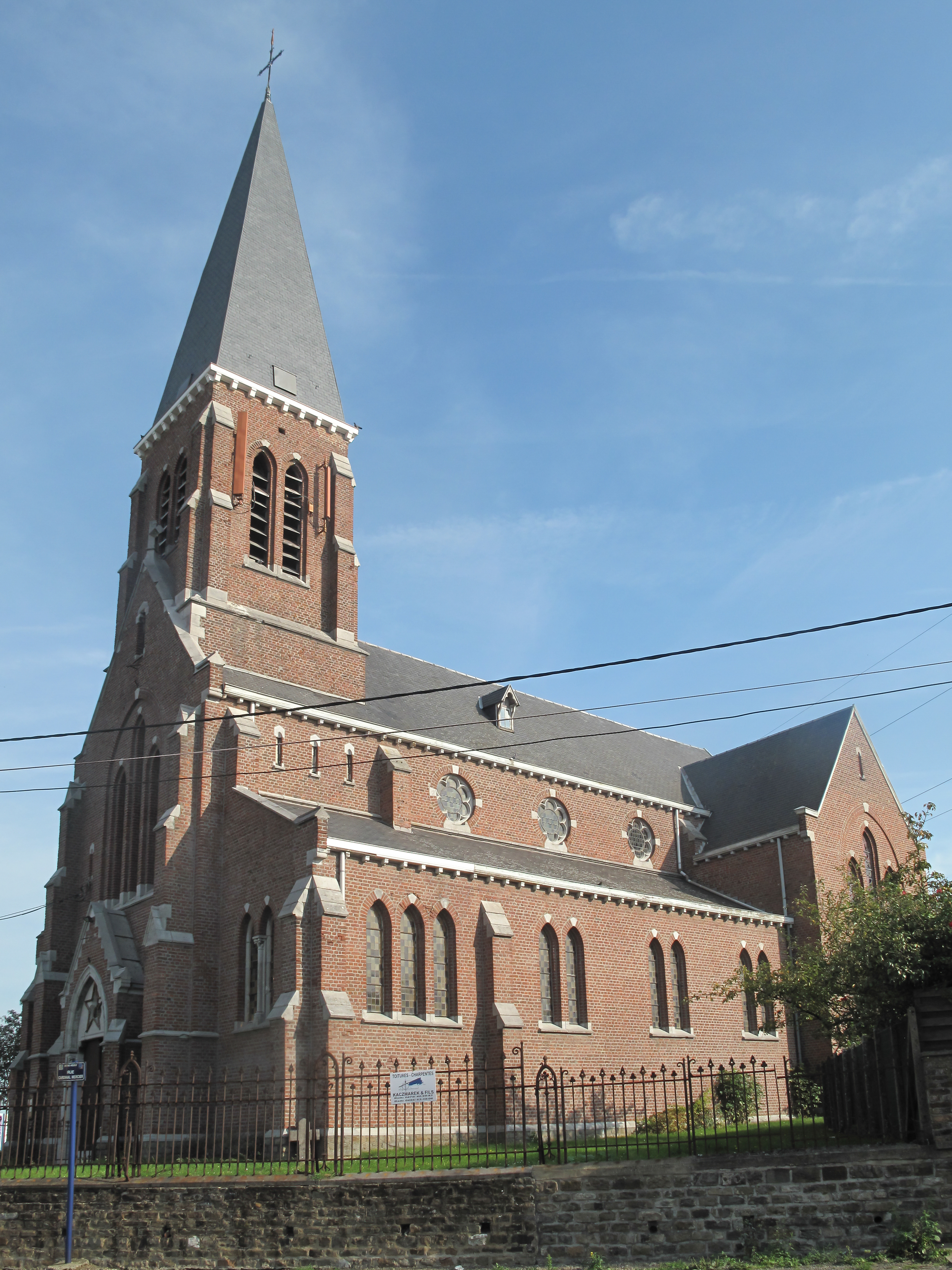 Beyne Heusay, church near Place Ferrer